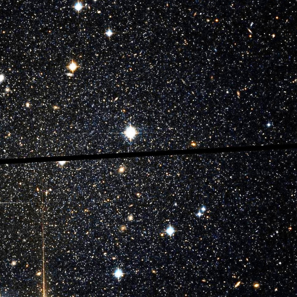 Andromeda II (And II) - Hubble Space Telescope - Hubble Legacy Archive